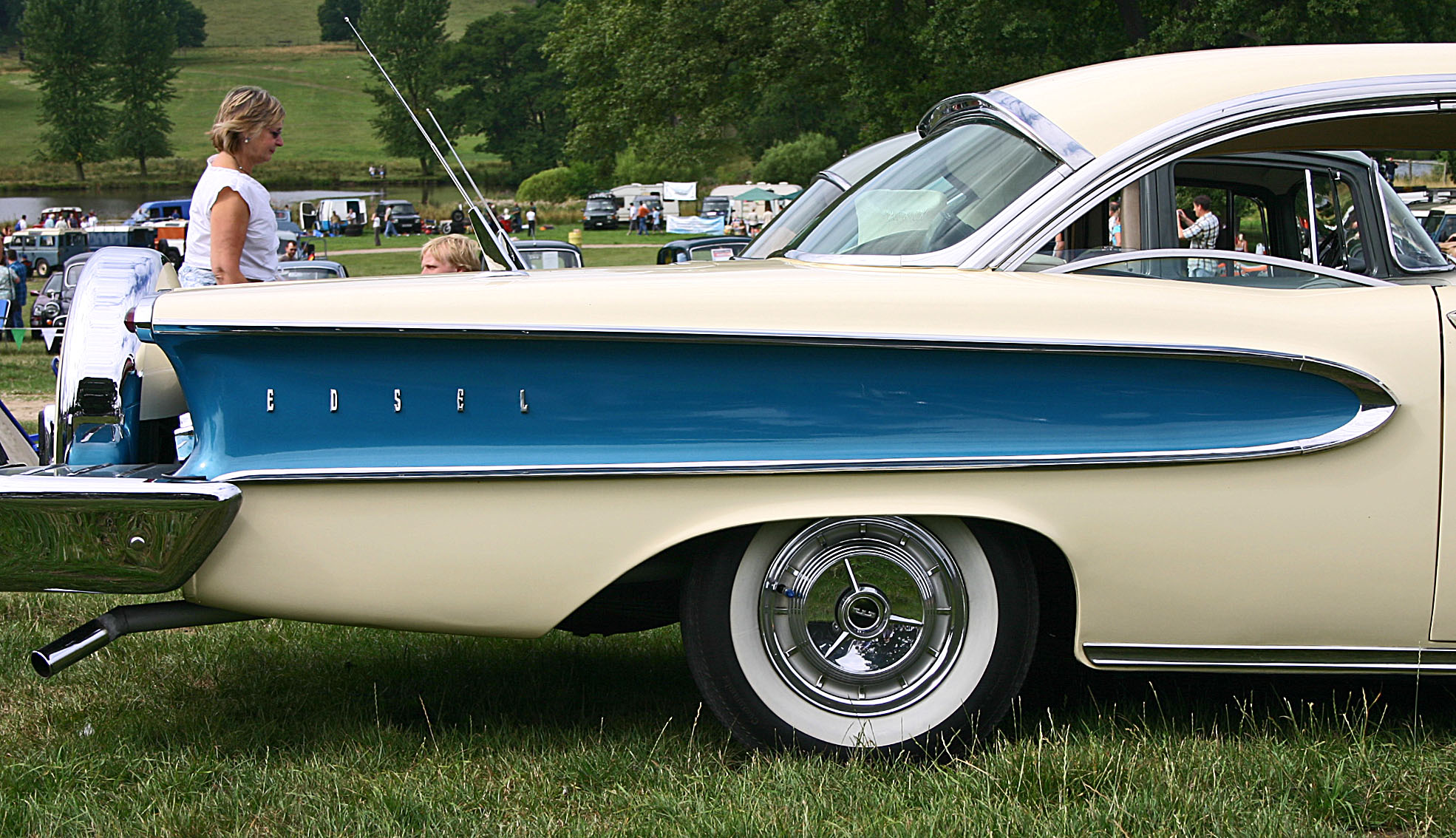 The rear wing of the 1958 Edsel Pacer Hardtop